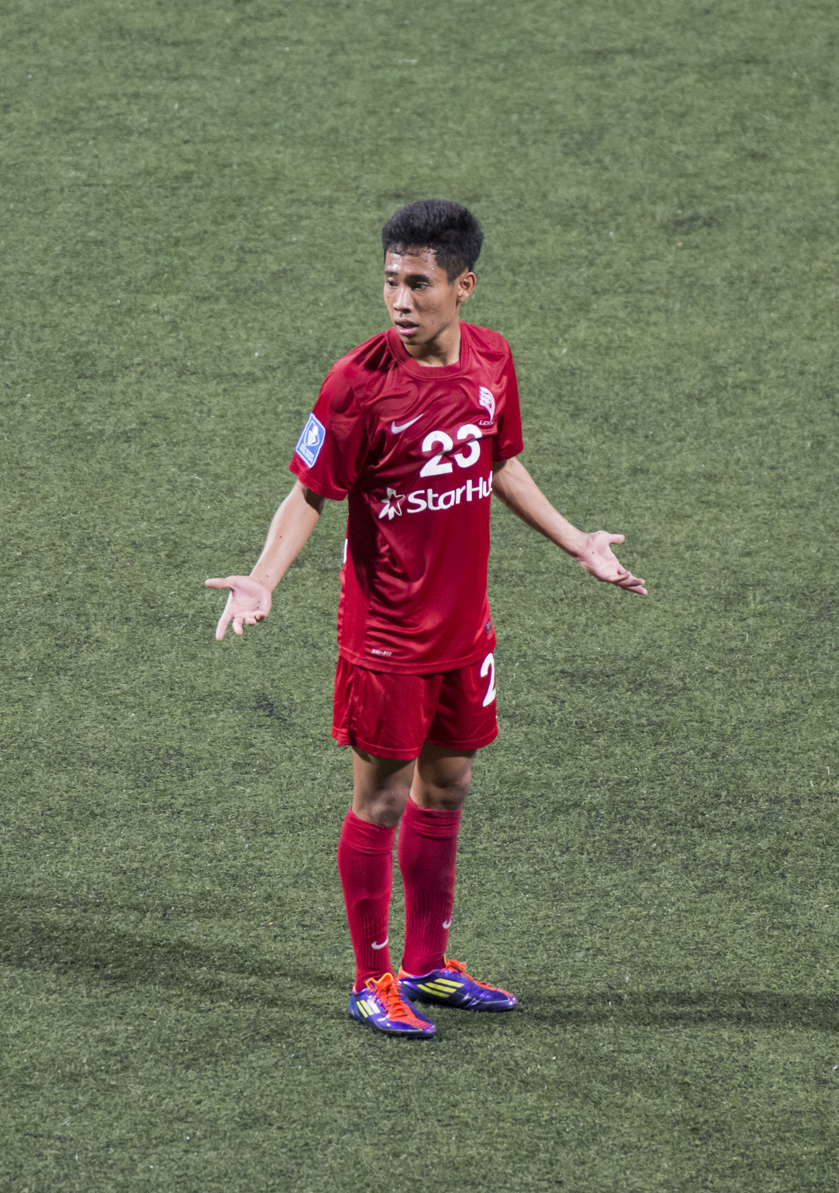 nazrul nazari lionsxii malaysia super league home game felda 2013